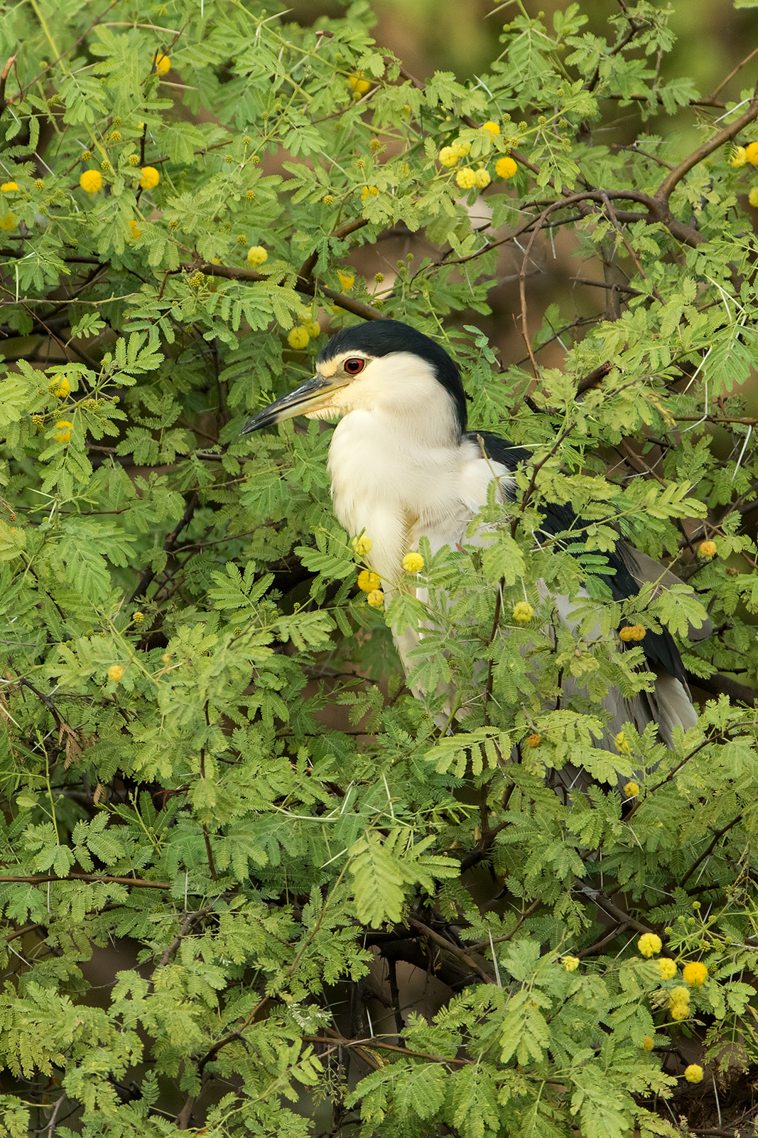 @ KNP Bharatpur